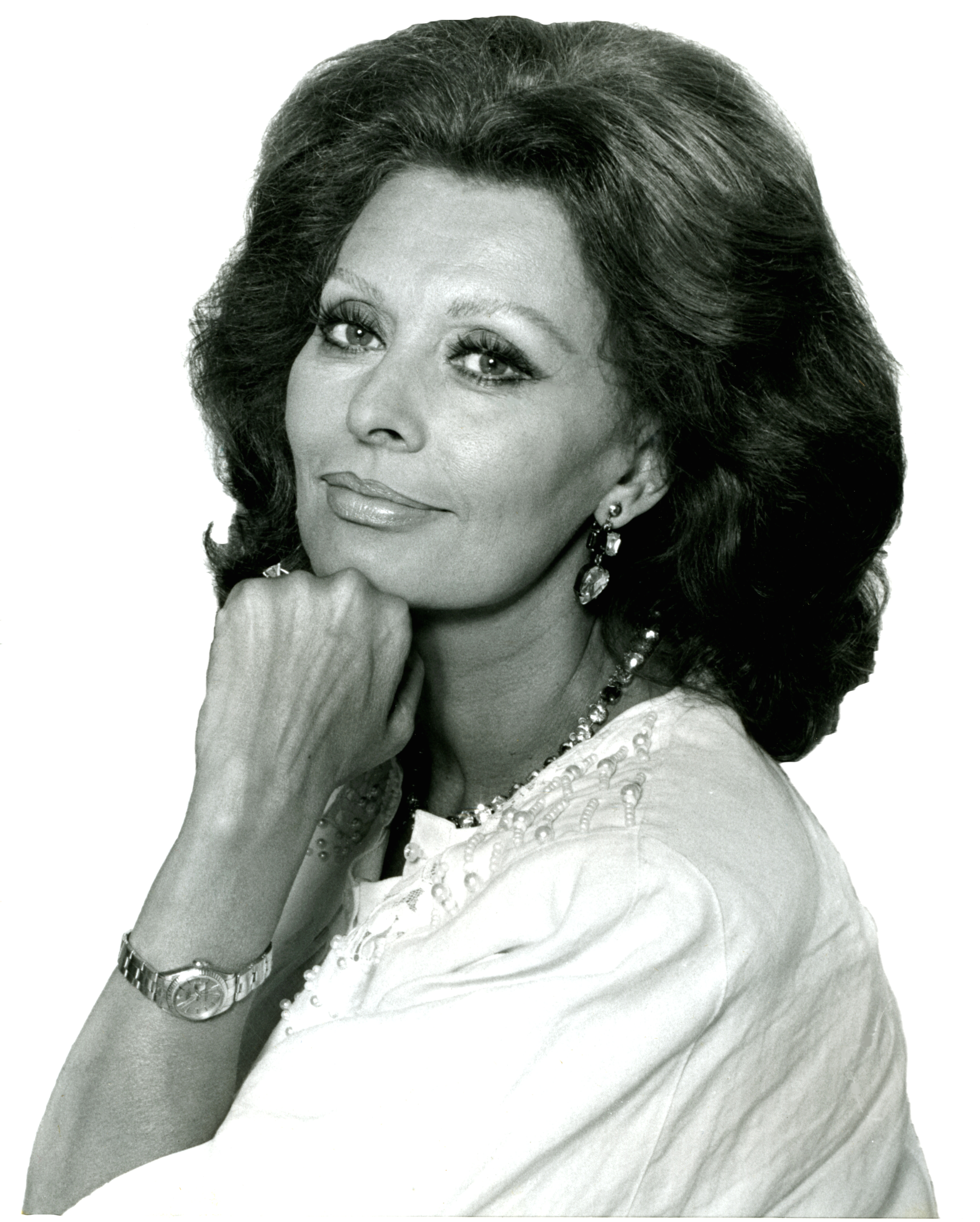 Portrait of the Italian actress Sophia Loren from 1986.